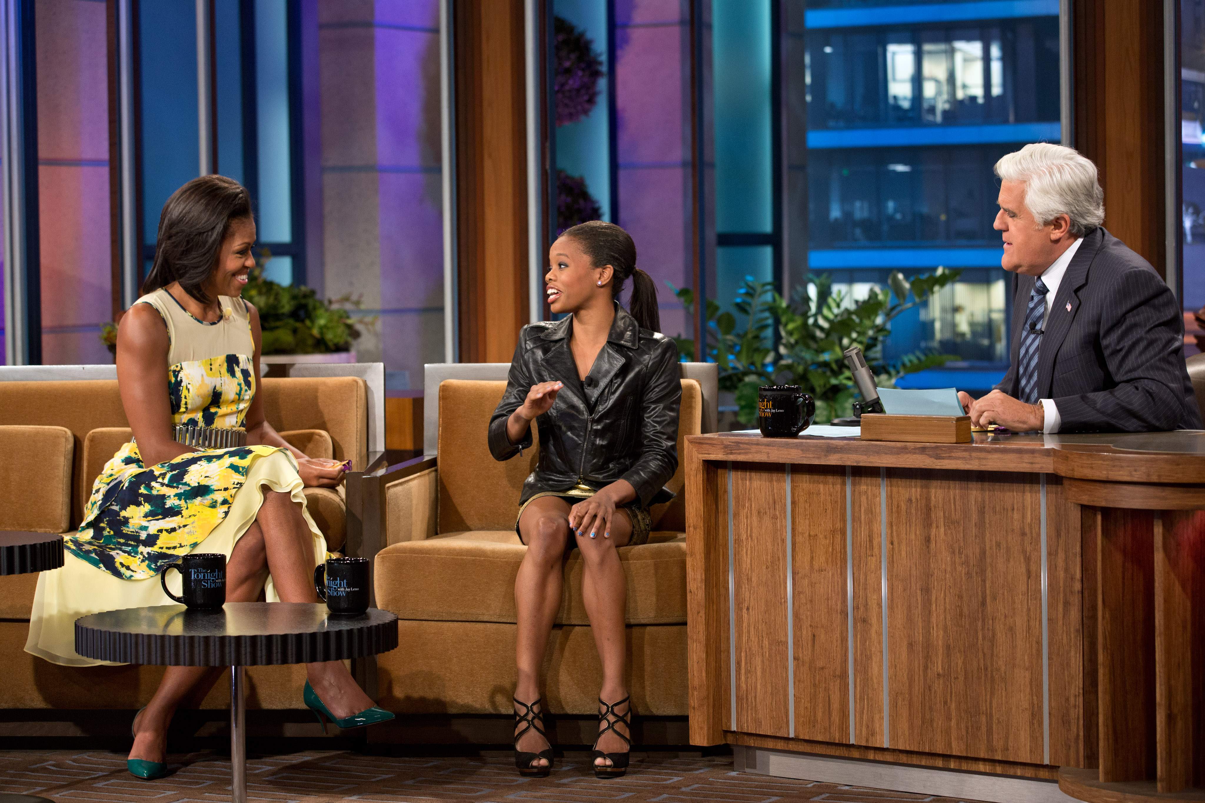 First Lady Michelle Obama and U.S. Olympic gymnast Gabby Douglas discuss the 2012 Summer Olympic Games during an appearance on "The Tonight Show with Jay Leno" at the Tonight Show Studio in Burbank, Calif., Aug. 13, 2012. (Official White House Photo by Sonya N. Hebert)